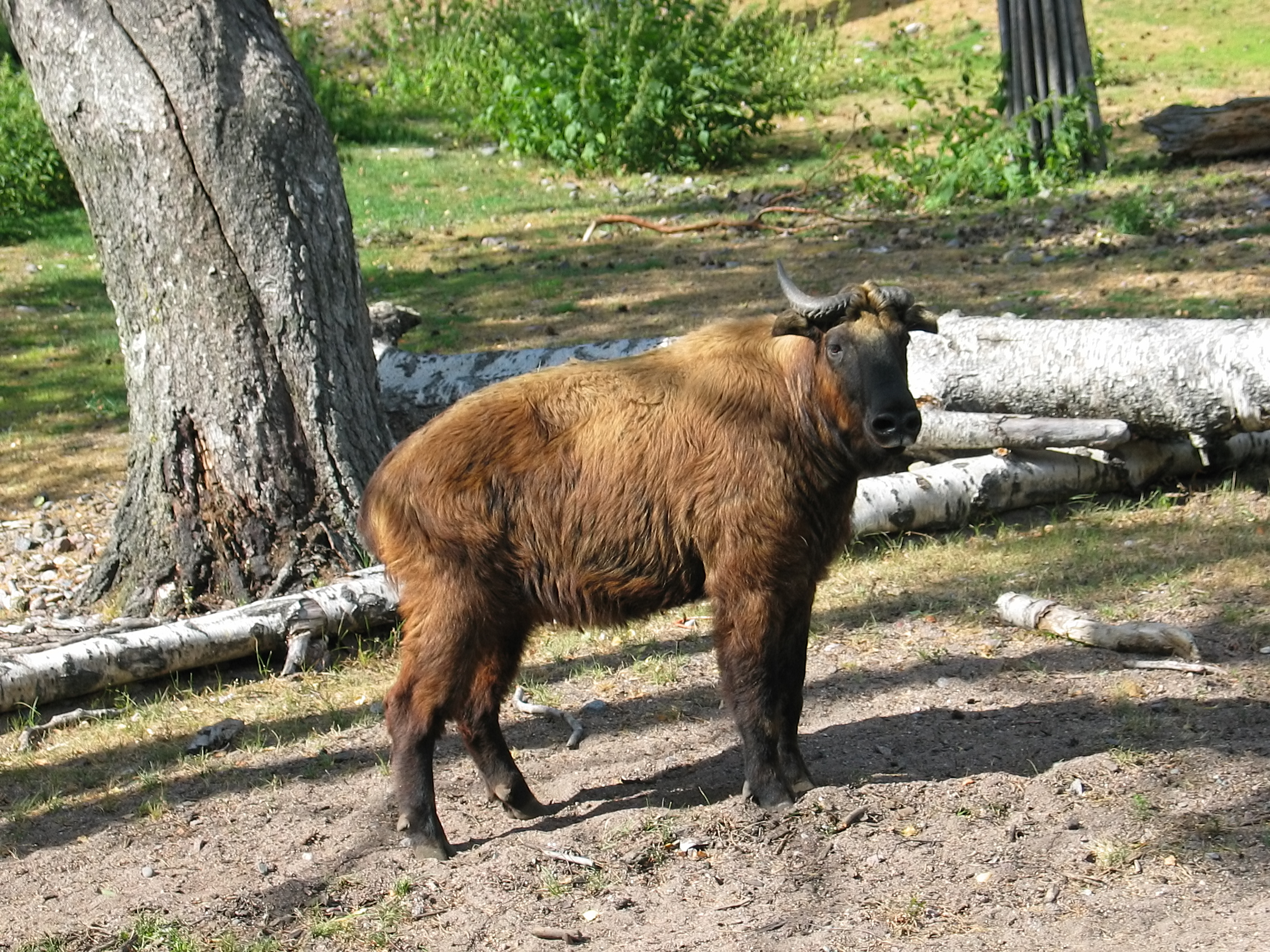 Takin